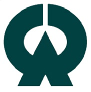 Symbol Otoyo Kochi